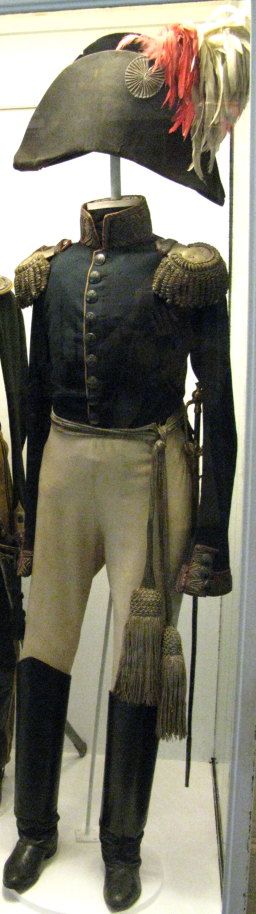 Polish General`s Uniform of Emperor Alexander I